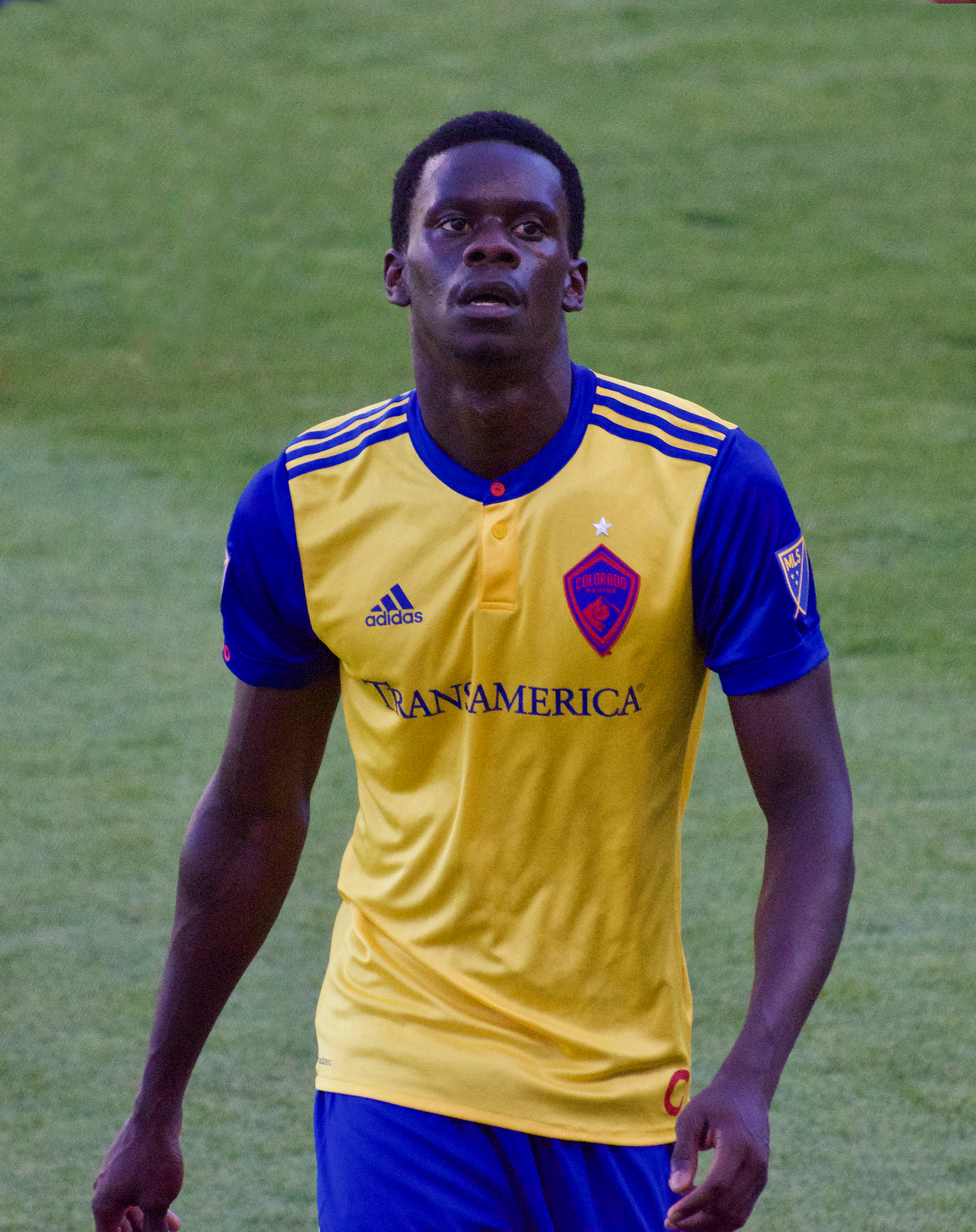 Dominique Badji of Colorado Rapids walks off the field at halftime. Avaya Stadium, 29 July 2017